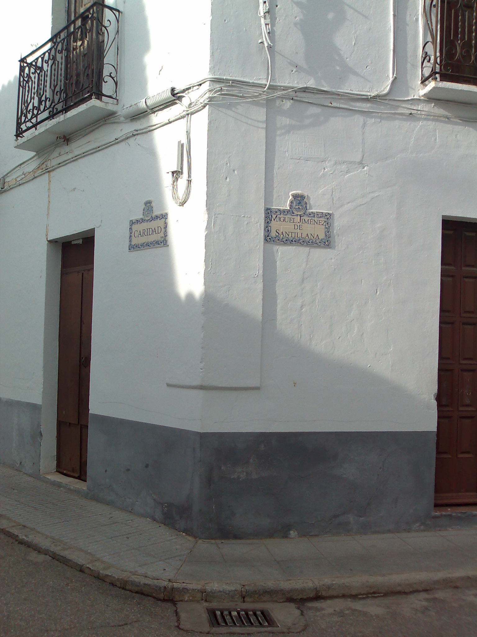 Olivença